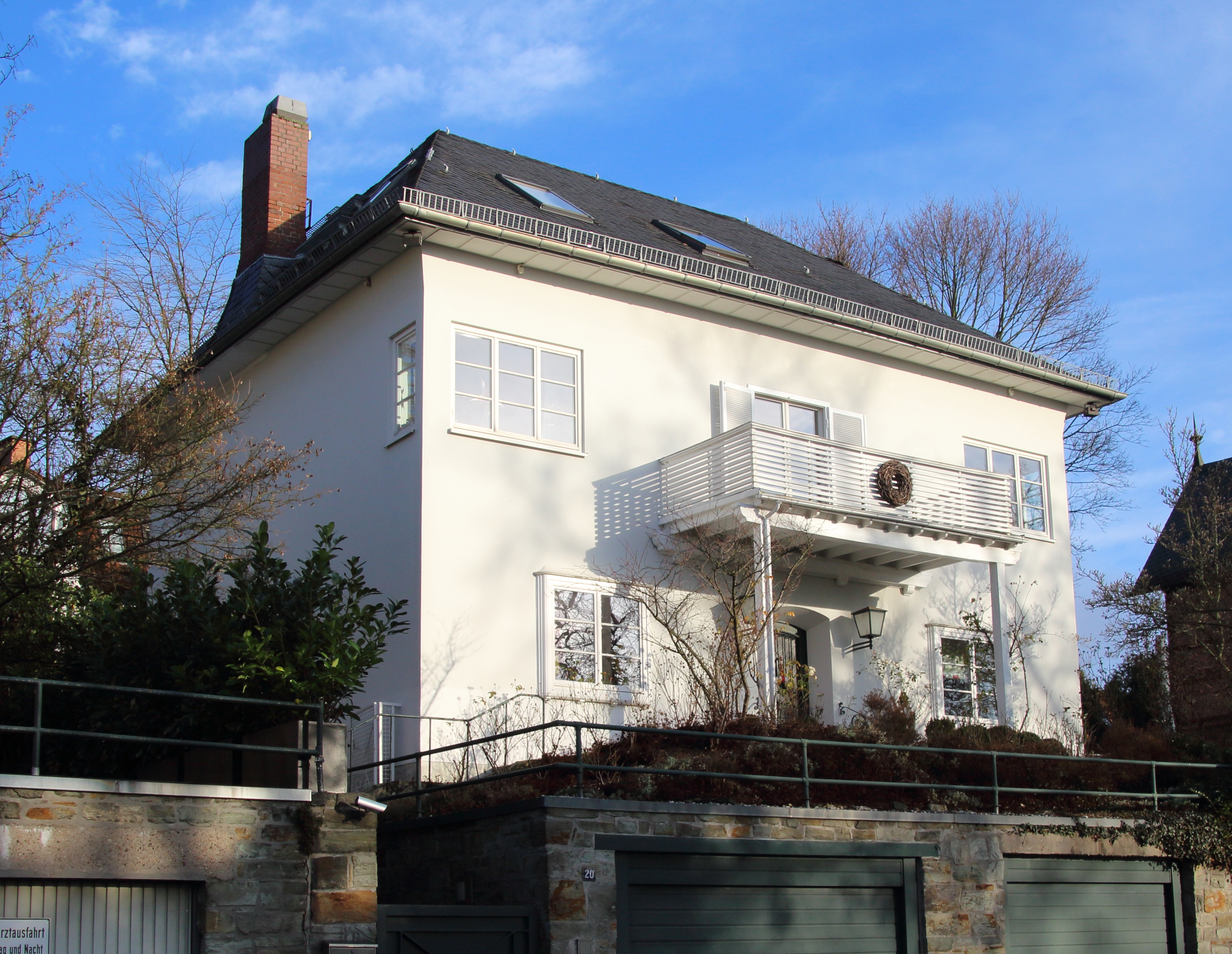 Ryder House (1923). Planed by Ludwig Mies van der Rohe, constructed by Gerhard Severain. Wiesbaden, Germany